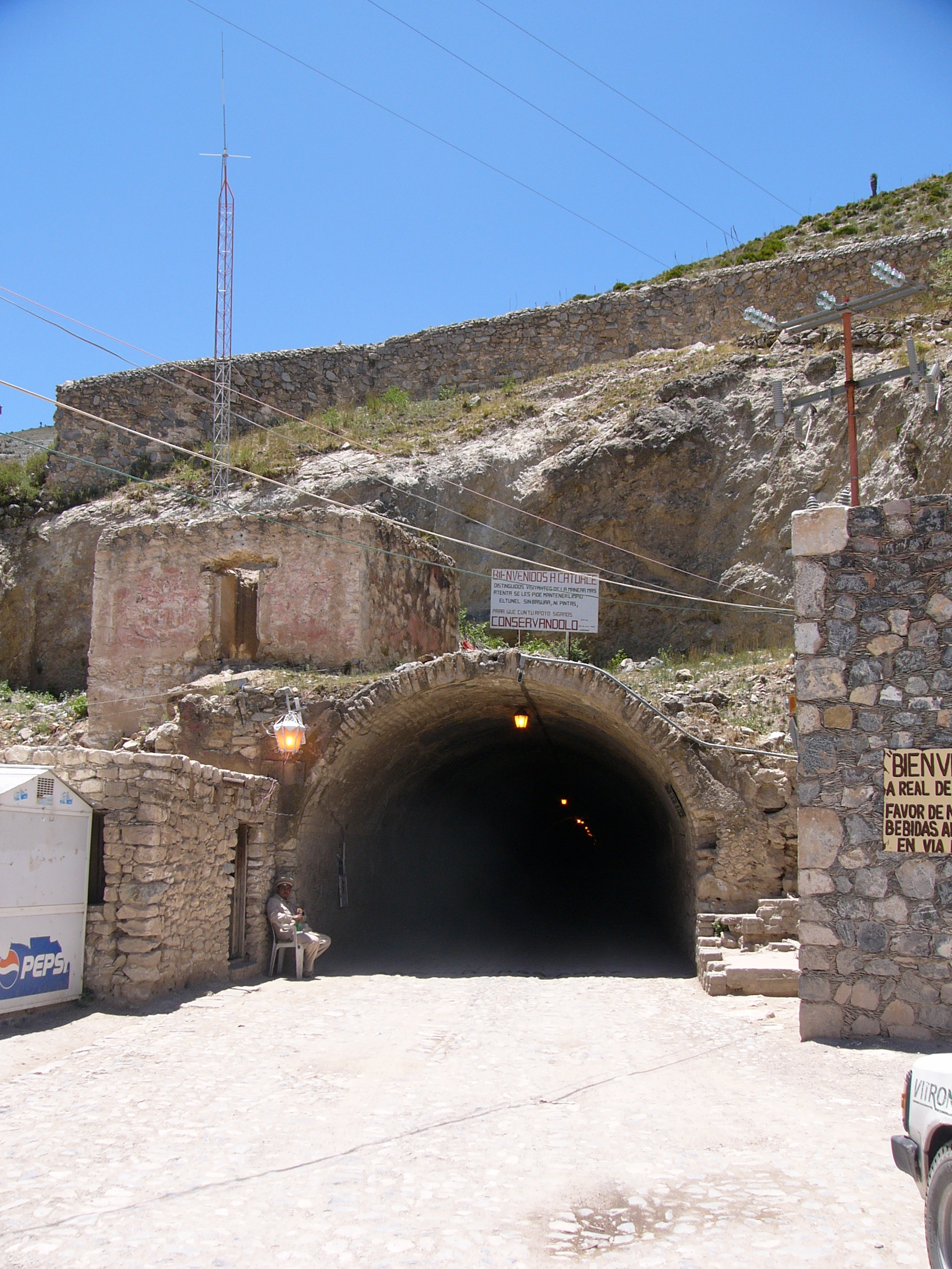 This is the entrance to the tunnel leading to Real de Catorce. All traffic approaching from the east of Catorce must past through this tunnel.